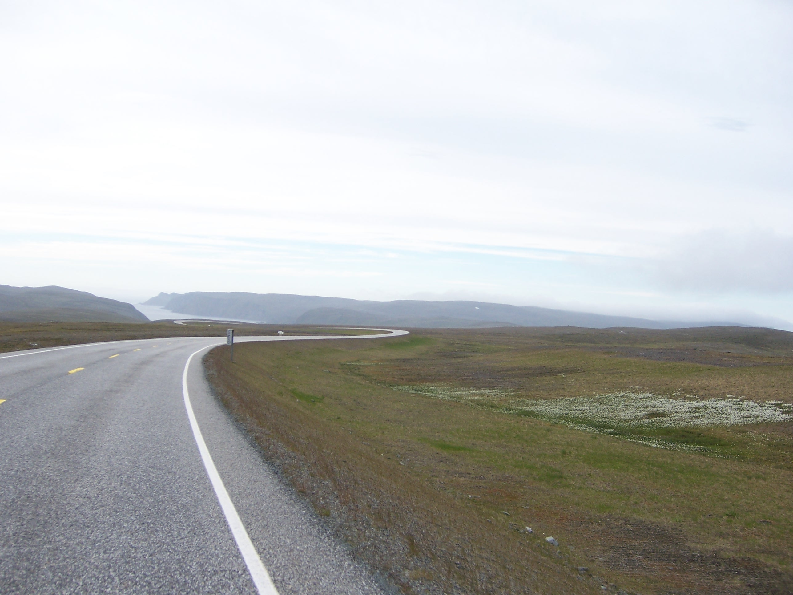 Tufjorden on Magerøya just south of North Cape